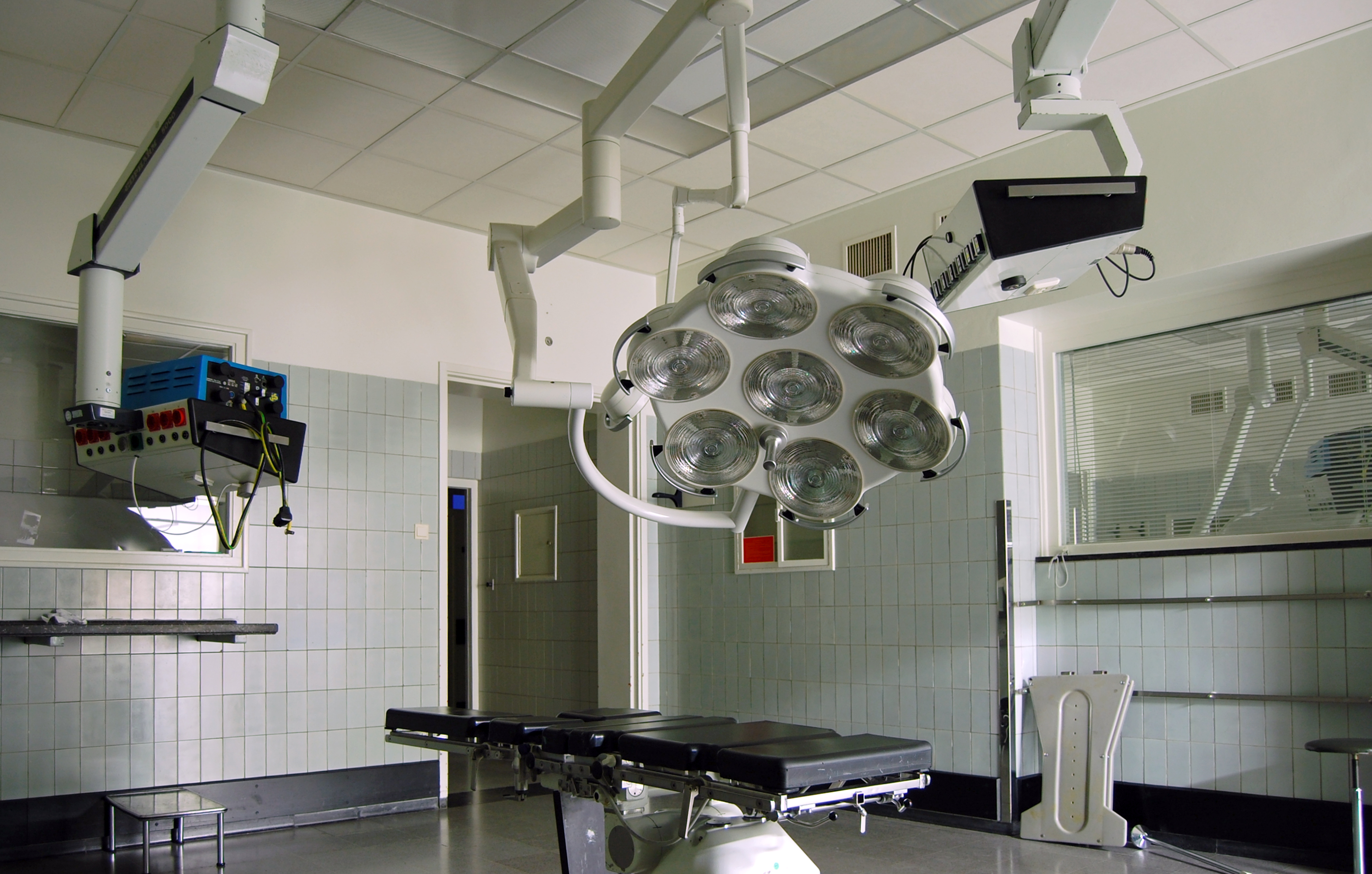 Operation room in Maasland Hospital located in Sittard